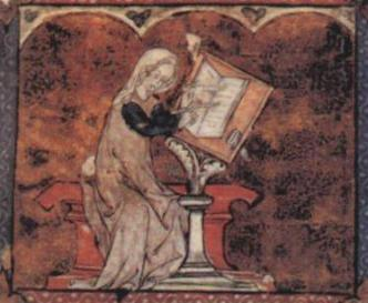 Marie de France, from an illuminated manuscript